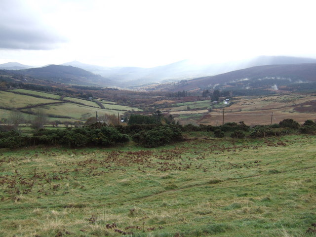 Glencree A stunning view down the length of the valley with Knockree Hill on the left and the Great Sugar Loaf in the distance behind.